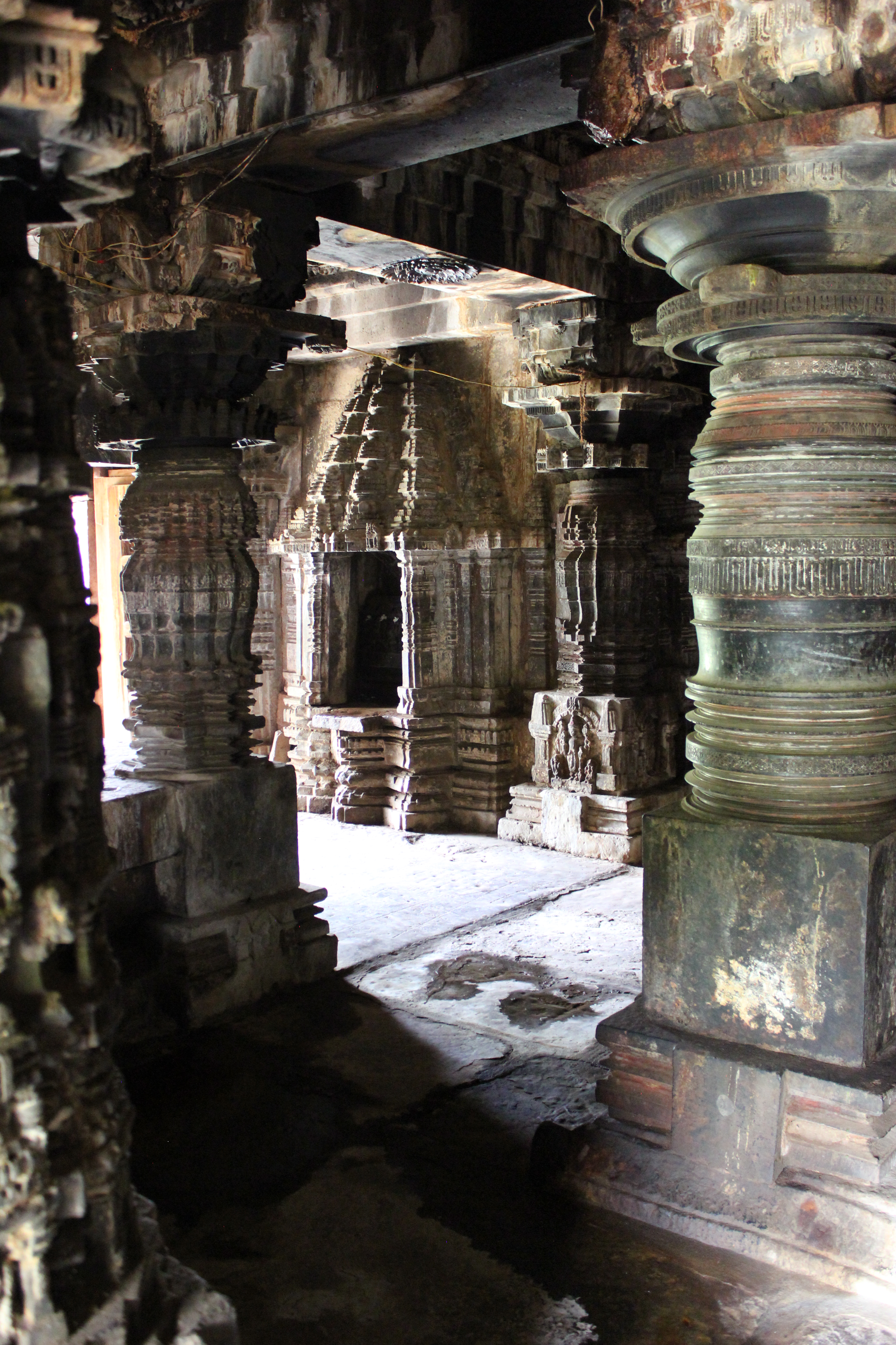 This photograph was taken by me at Haranhalli, Hassan district, Karnataka state, India. The temple, whose main deity is the Hindu god Shiva (in the form of the Linga) , was built in 1235 A.D. by the Hoysala Empire King Vira Someshwara.